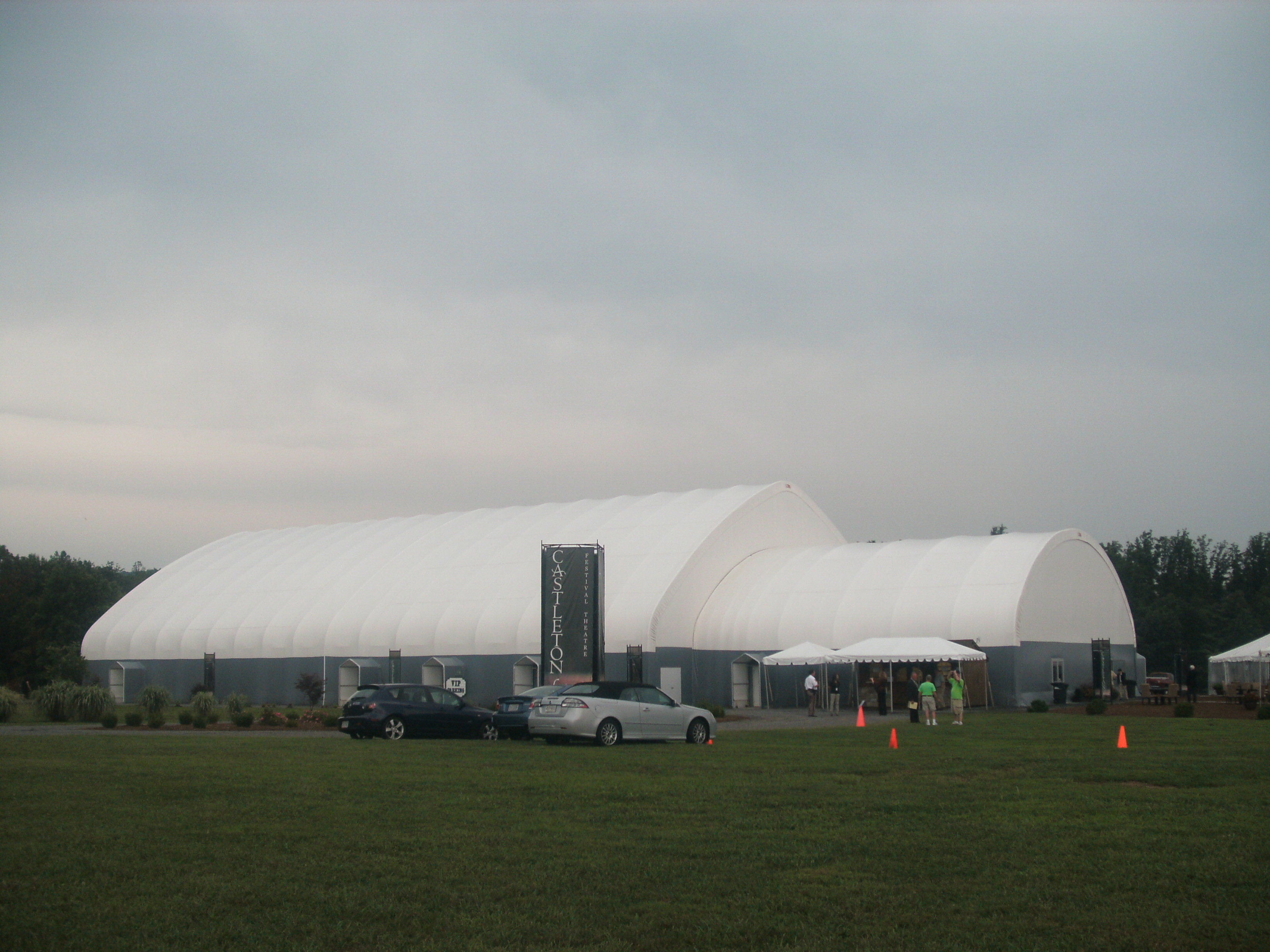 GEDSC DIGITAL CAMERA